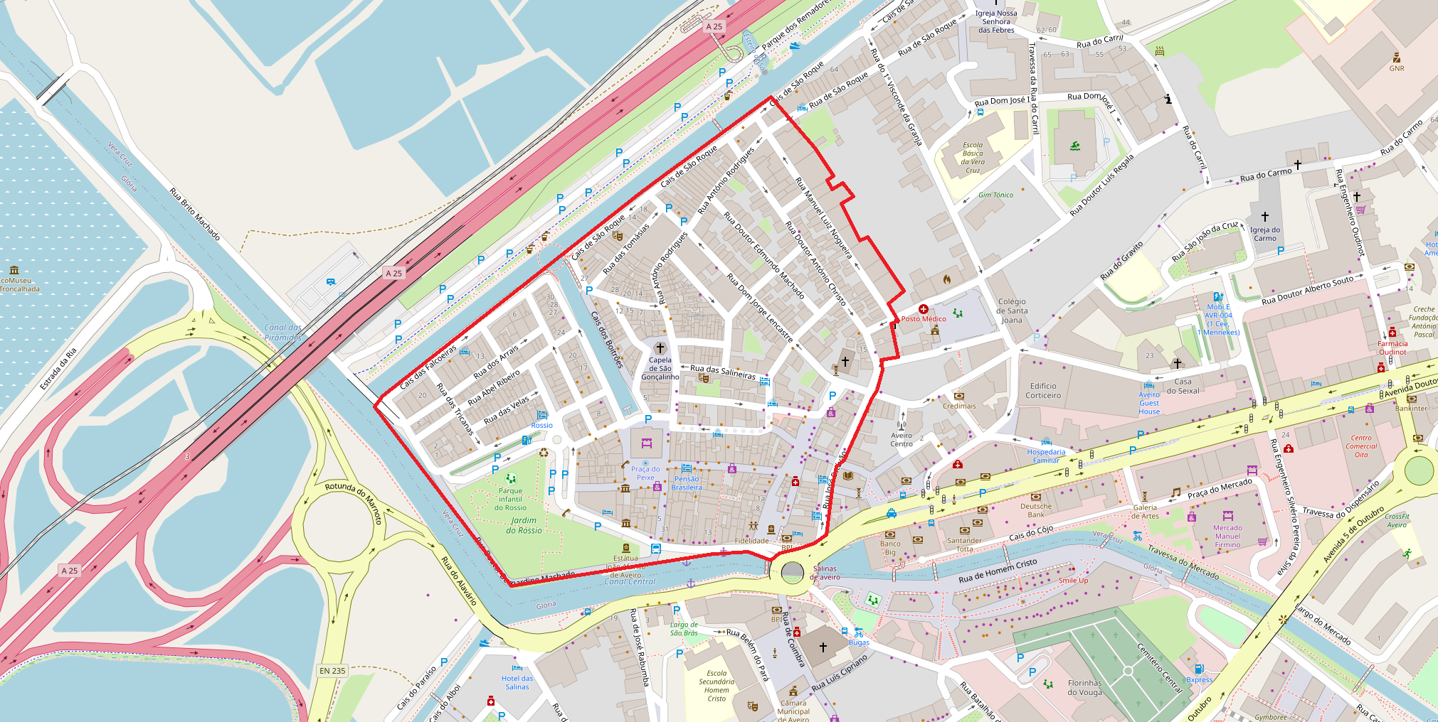 Beira Mar, in Aveiro, Portugal This map may be incomplete, and may contain errors. Don't rely solely on it for navigation.